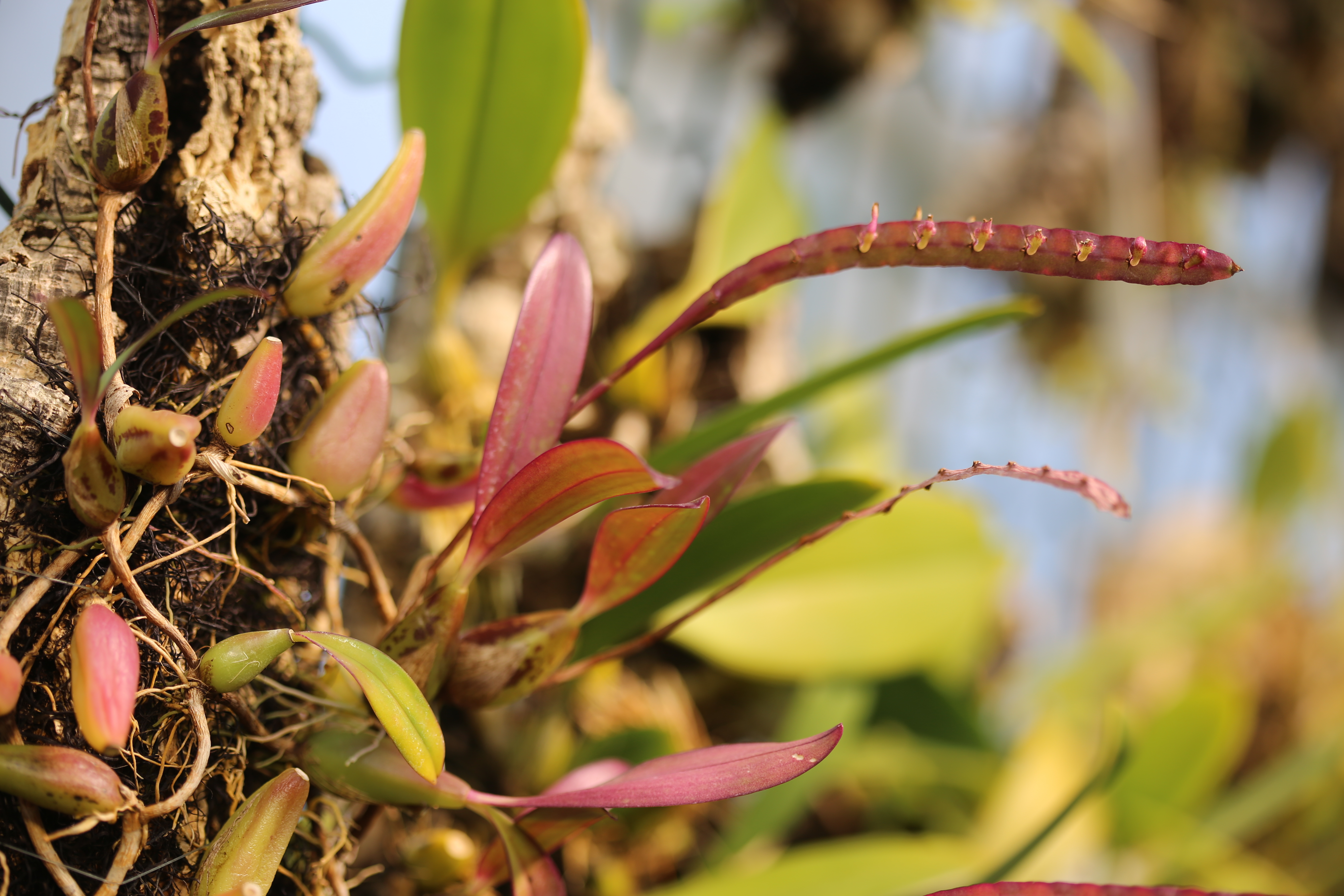 Bulbophyllum falcatum at Gothenburg Botanical Garden in 2015. Plant id: 1993-V0439 p W -- Neuendorf; MN 1562